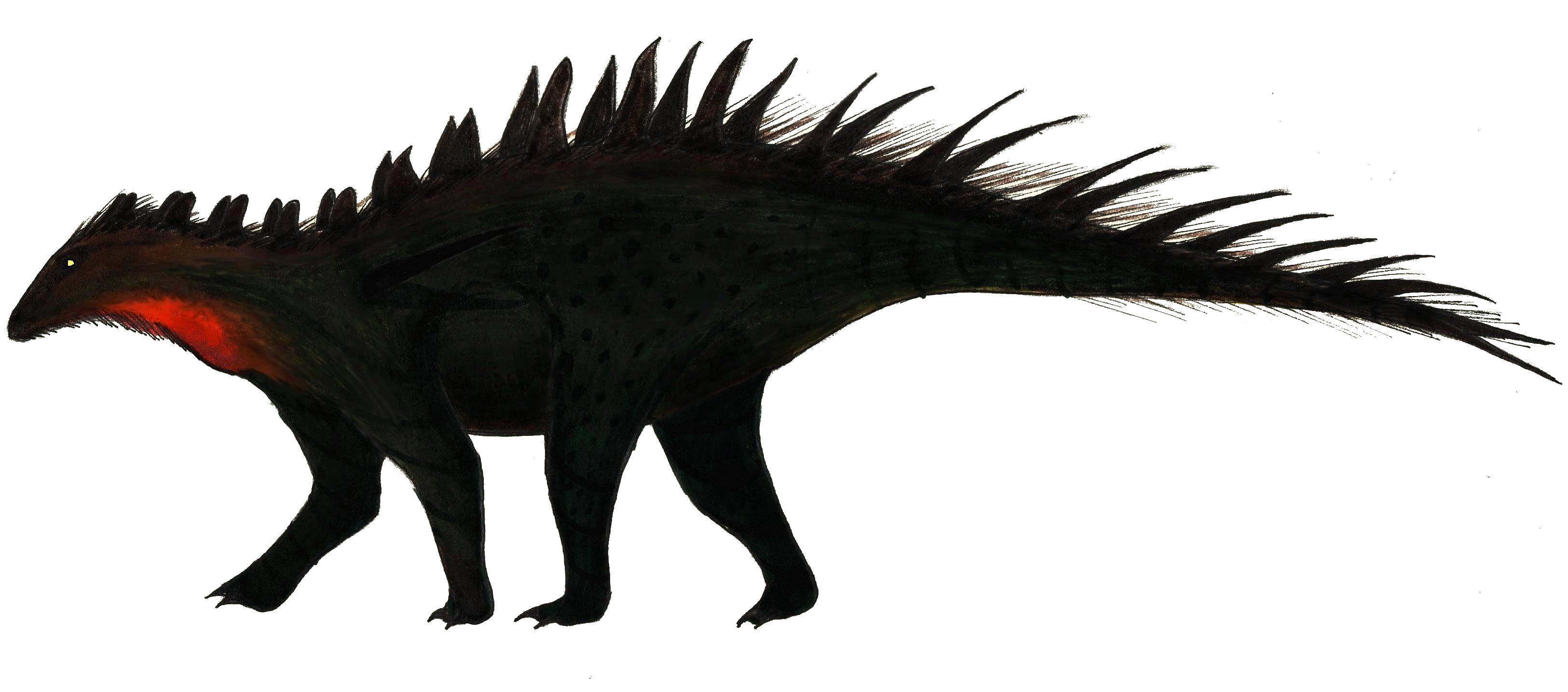 Artist's impression of Dacentrurus